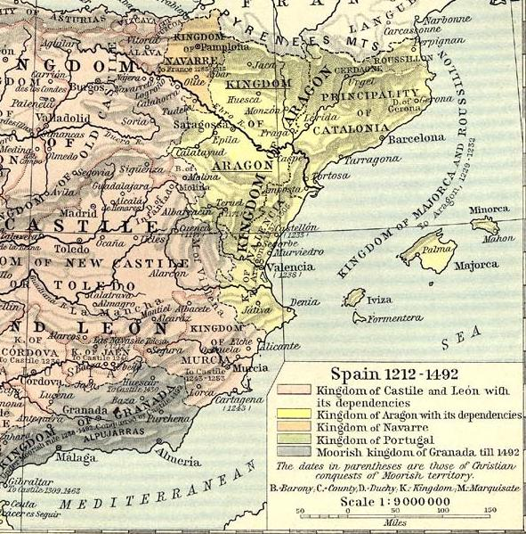 From Historical Atlas by William Shepard (New York: Henry Holt and Company, 1911).